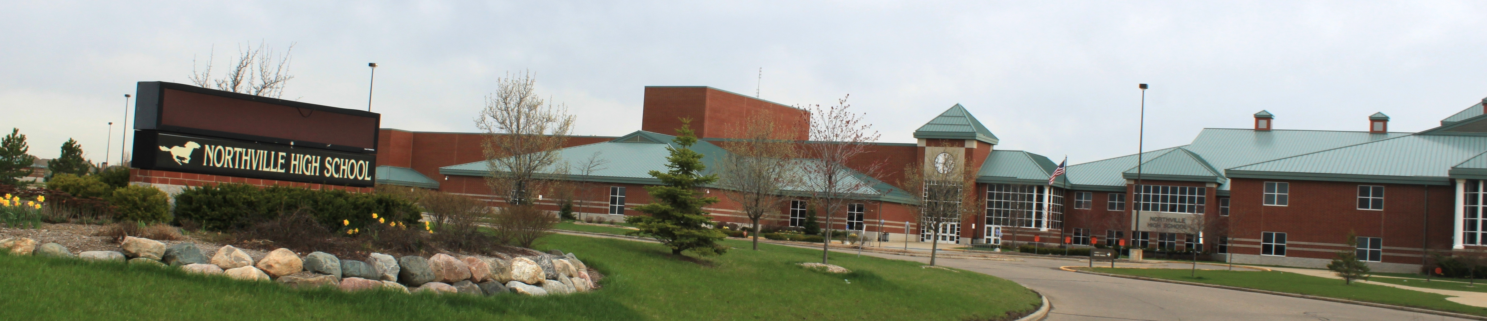 Northville High School, 45700 Six Mile Road, Northville, Michigan